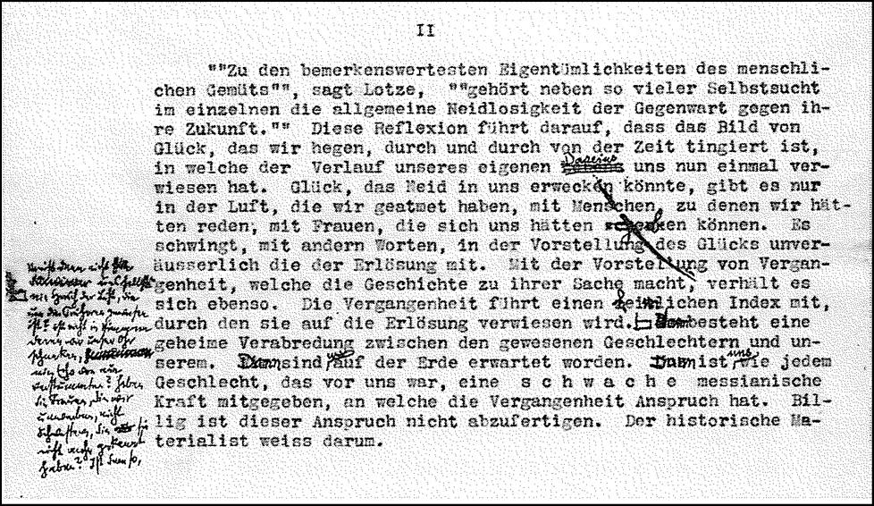 Handexemplar of the Theses on the Philosophy of History, second thesis.